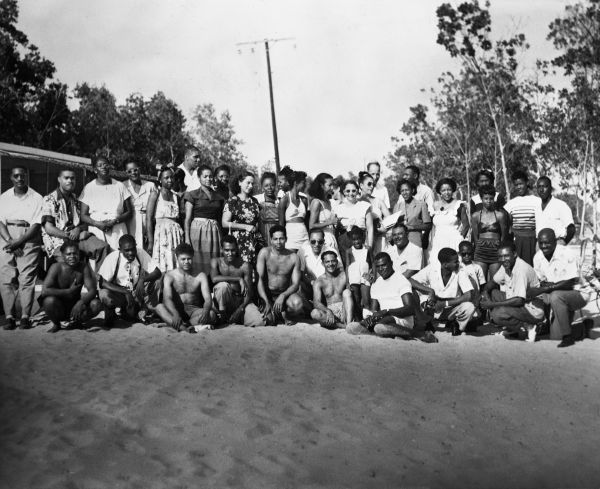 Photograph of large group of people on the "Virginia Key Beach, a Dade County Park for the exclusive use of Negroes" the year it opened